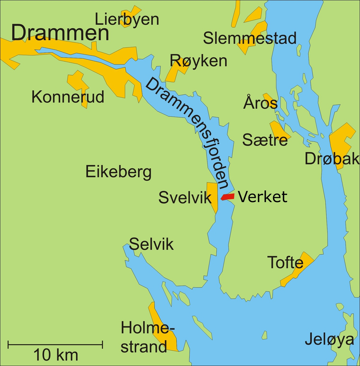 Map of Verket by Drammensfjord, Norway. A slight modification by myself, Kjetil Lenes, of the map Drammensfjord.jpg by Finn Bjo.